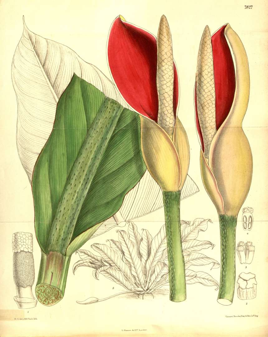 Philodendron insigne, as Philodendron calophyllum